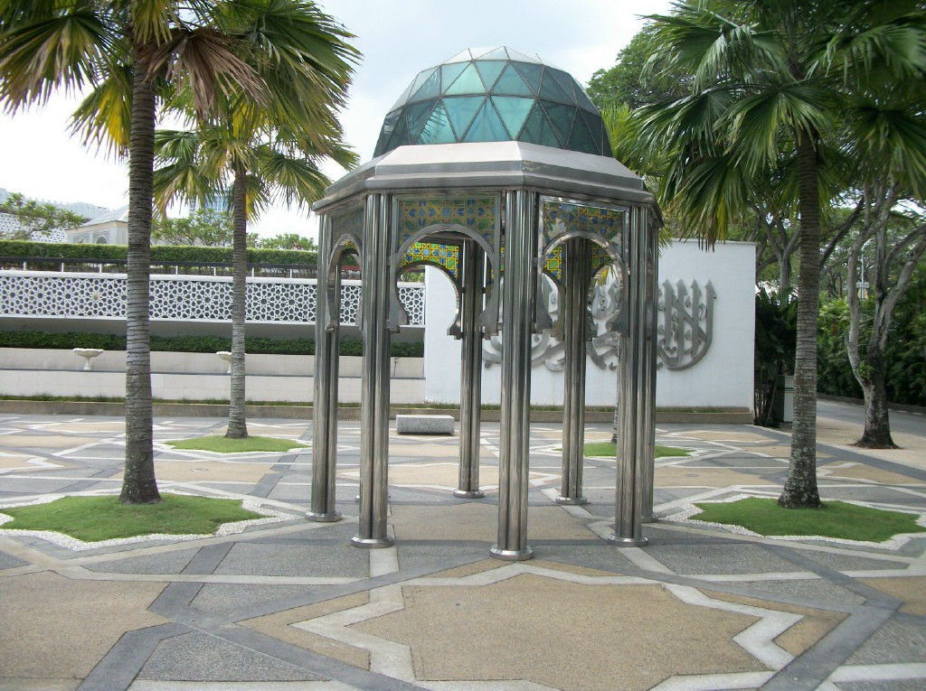 Structure part of Malaysian national mosque